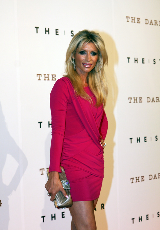 Dani Behr at the official launch of the Darling Bar in Star Casino, 25th October 2011